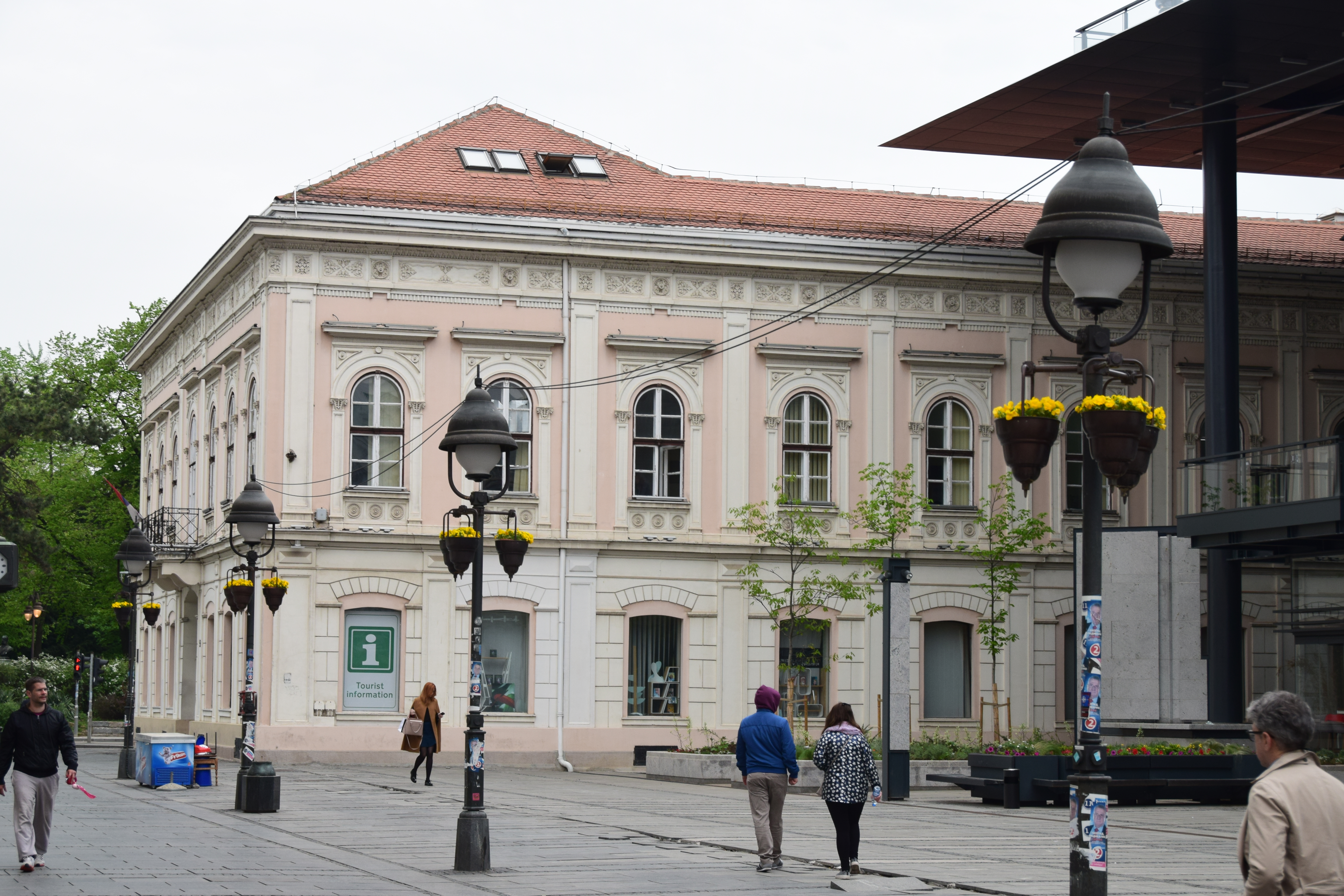 The building of the hotel "Srpska kruna" ("Serbian Crown") in Belgrade is built in 1869. In 1981 it was proclaimed for a Cultural heritage. Since 1986 in this building is Belgrade City Library.